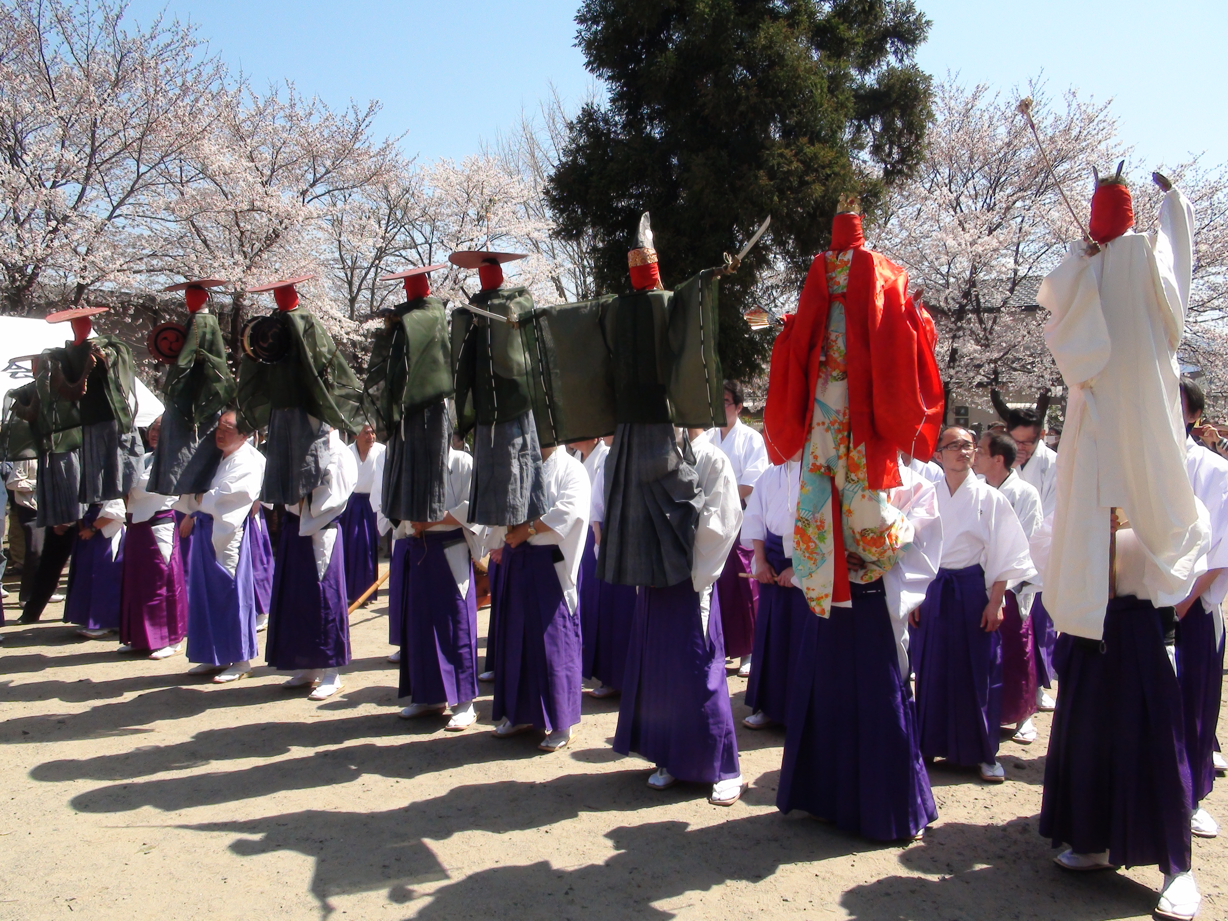 9 of Tenzushi-mai dance dolls